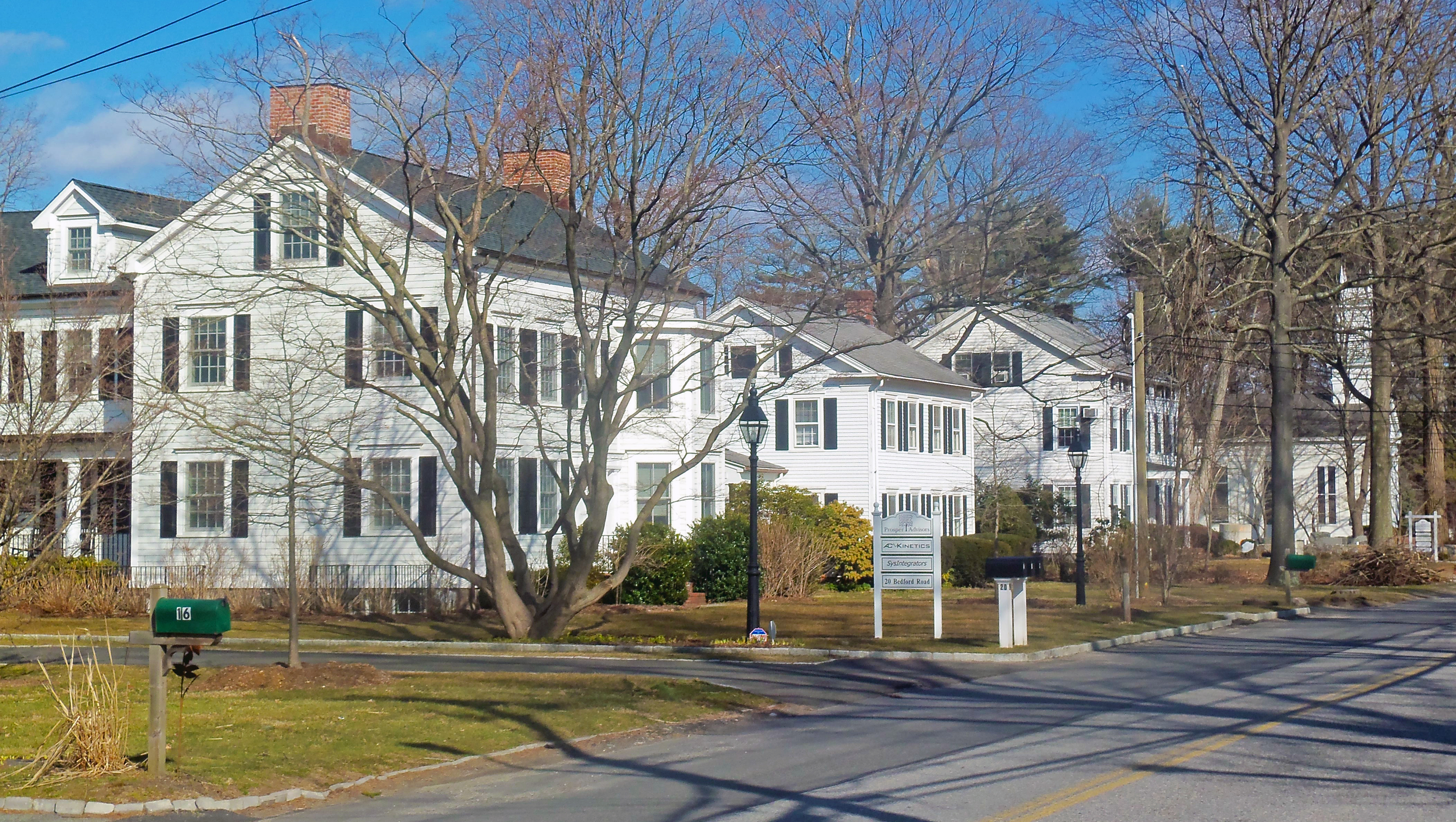 Neoclassical buildings of the Bedford Road Historic District, Armonk, NY, USA